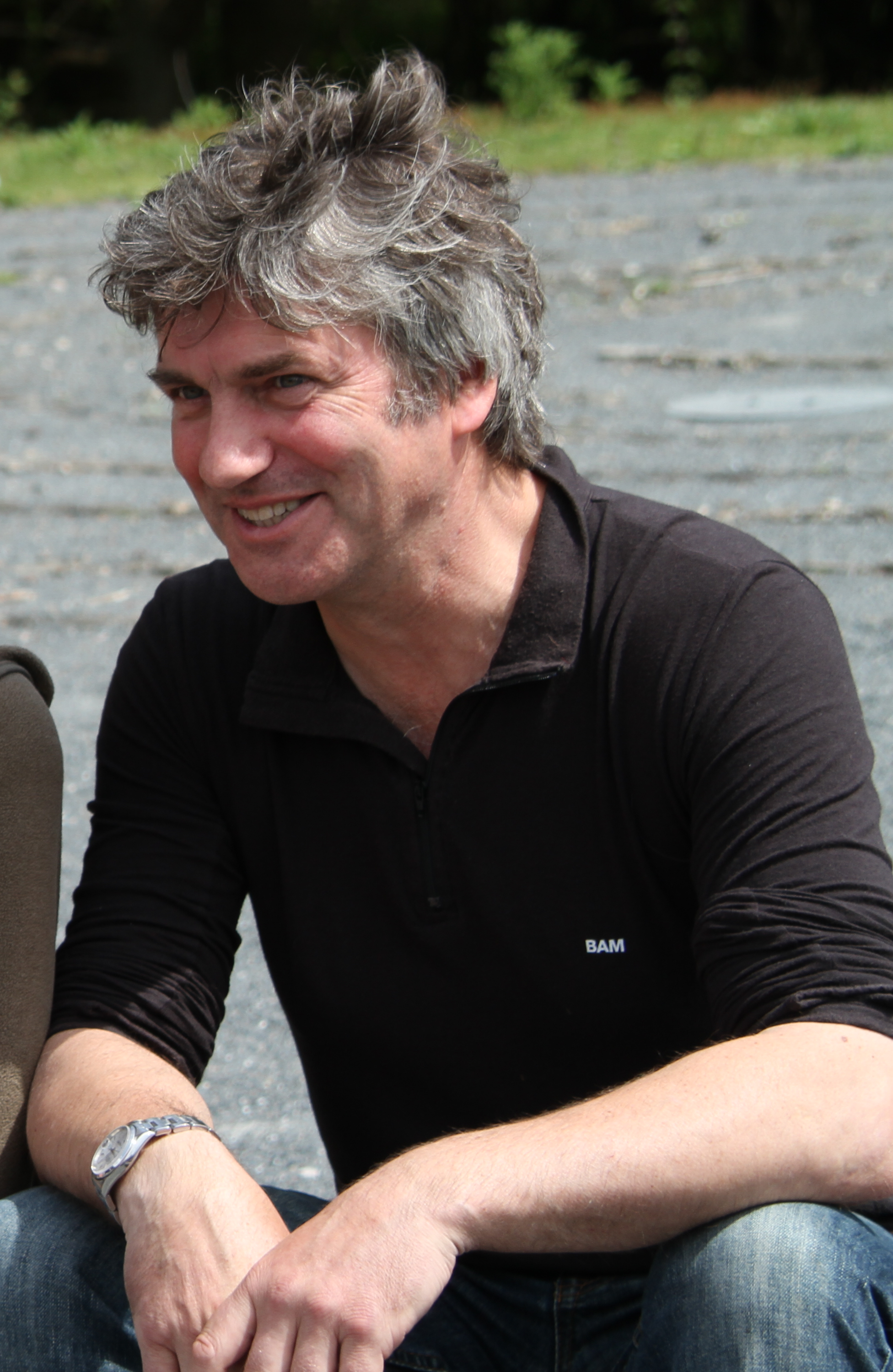 Martin Hughes-Games at the Springwatch media launch, RSPB Minsmere, Suffolk, England.